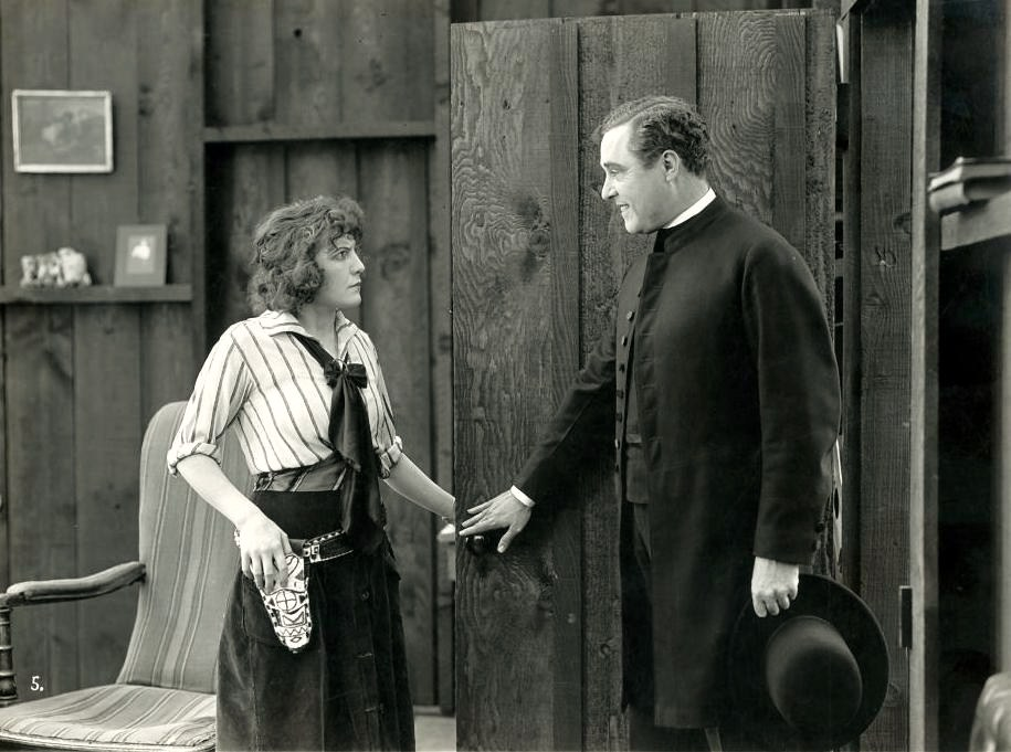 Louise Glaum and William Conklin in Golden Rule Kate (1917) - cropped screenshot